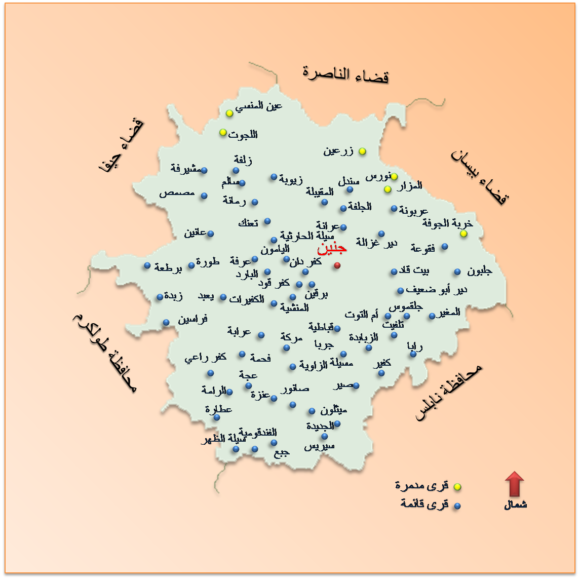 Map showing the Governate of Jenin and its villages